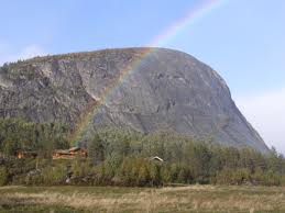 Løefjell seen from Brokkestøylen with the rainbow.